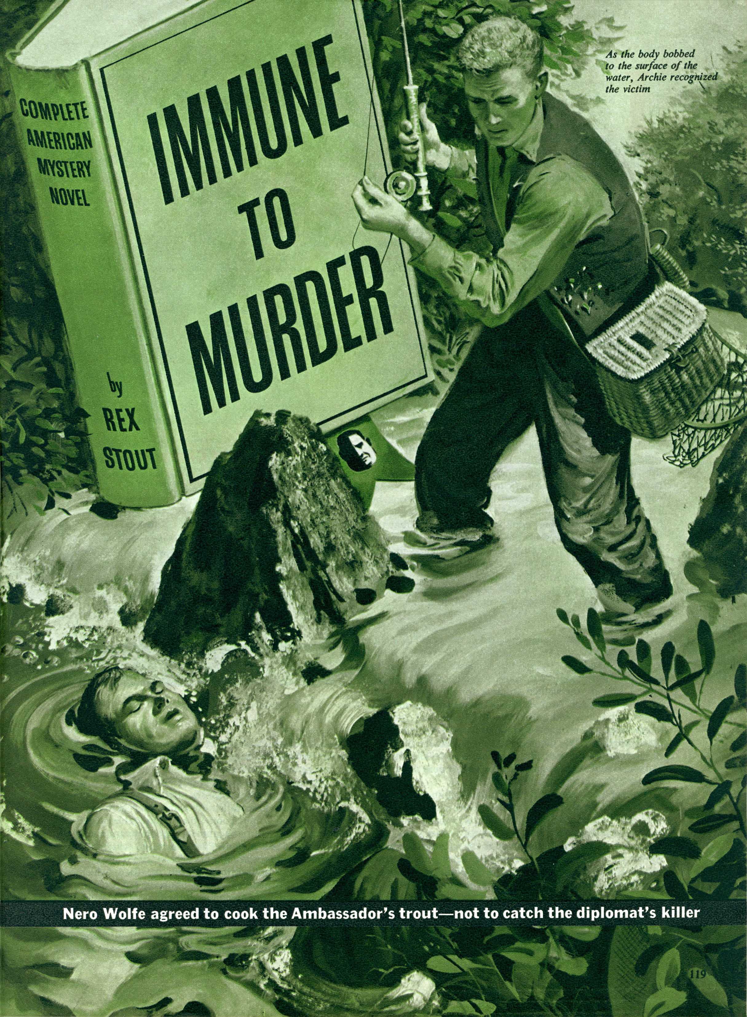 Lead illustration for "Immune to Murder", a Nero Wolfe story by Rex Stout that first appeared in The American Magazine and was subsequently collected in the book Three for the Chair (1957)